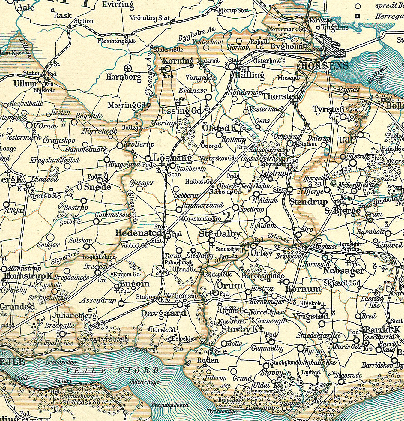 Map of Hatting Herred in Vejle County in Denmark